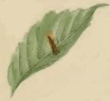 Stainton’s Natural History of the Tineina (1855–1873): Coleophora milvipennis elm leaf eaten by the larva